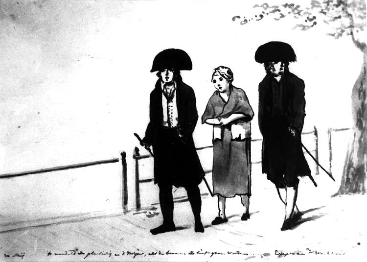 On her way to the Working house.